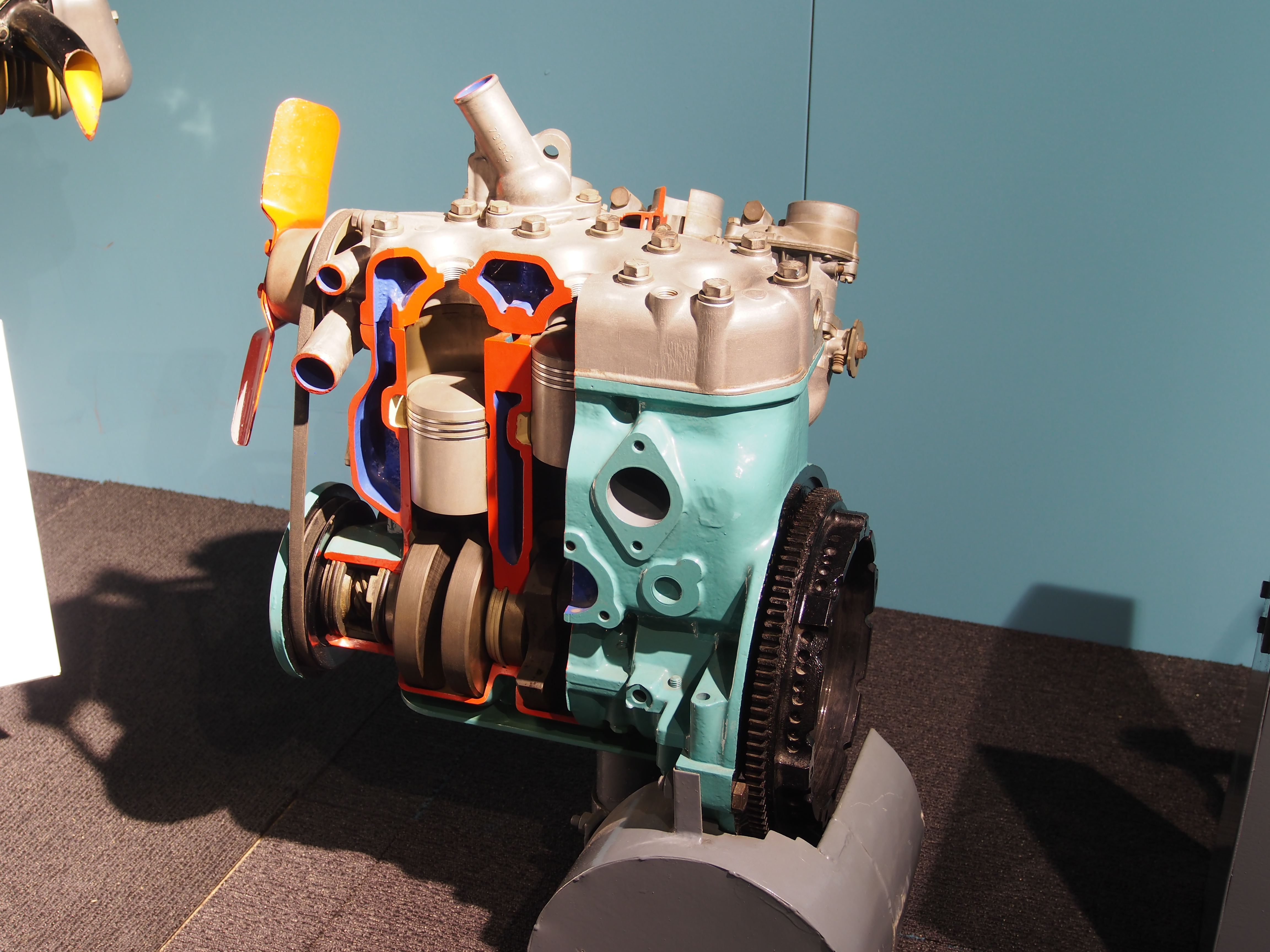 Car engine photographed at the Louwman museum.